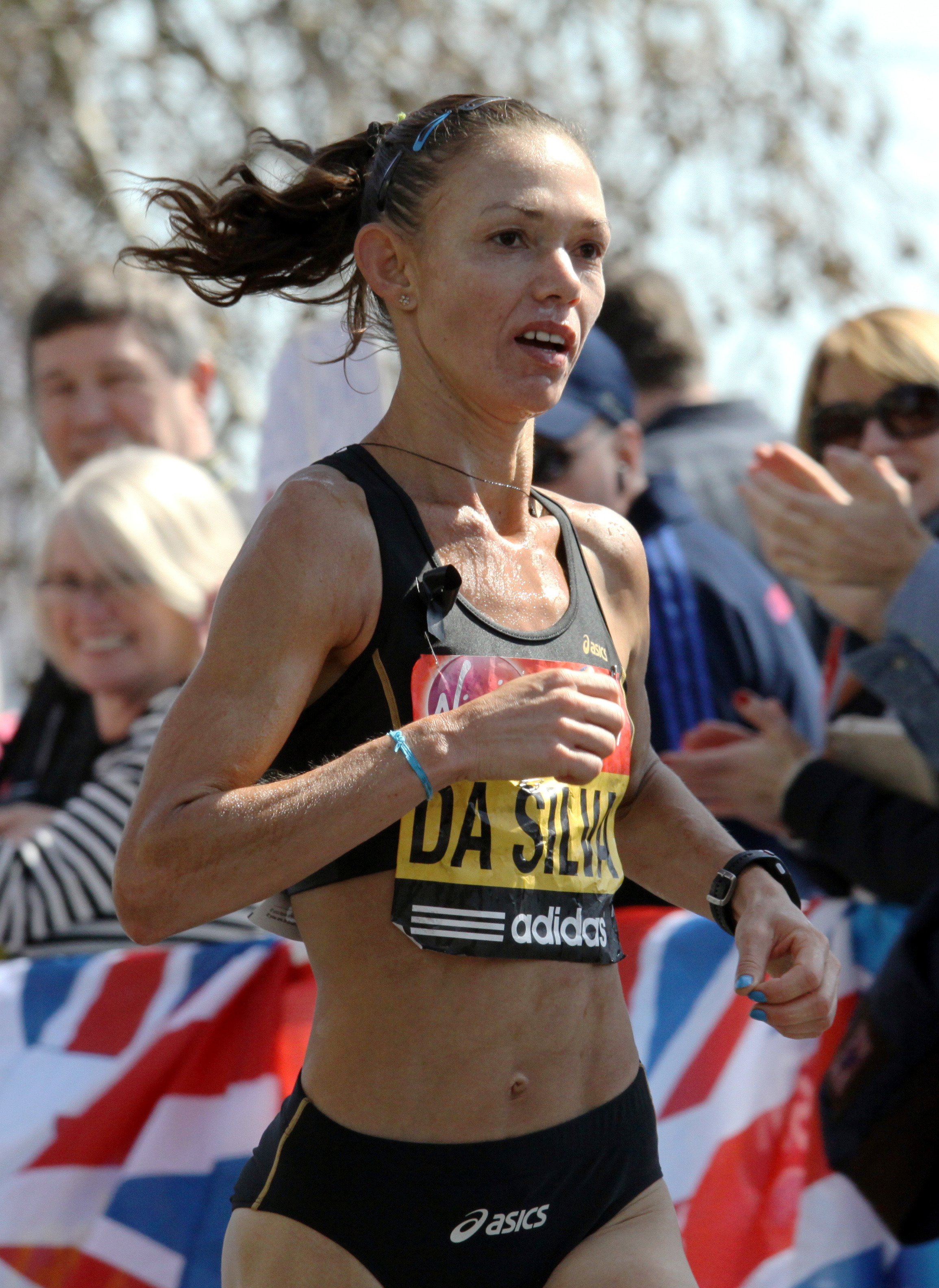 Adriana da Silva during 2013 London Marathon, photographed at Victoria Embankment, London, Great Britain. The making of this file was supported by Wikimedia UK.